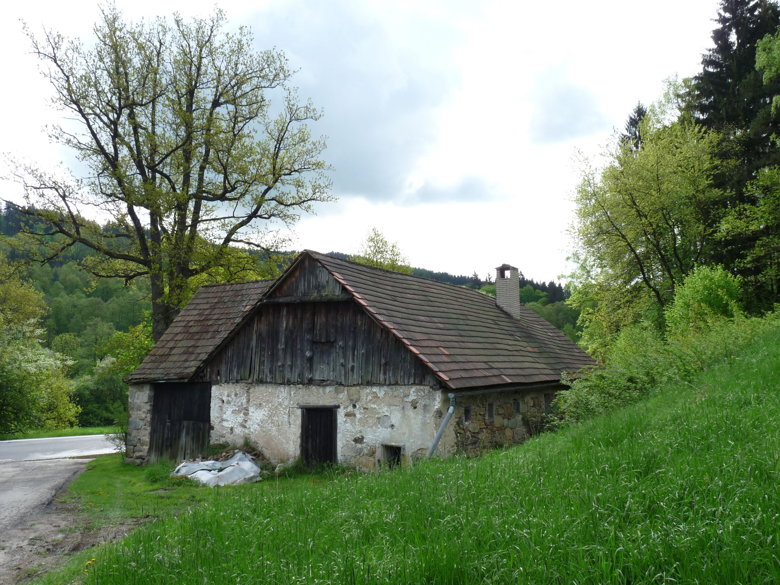 House No 28 in the village of Přízeř, Český Krumlov District, South Bohemian Region, Czech Republic near the New Jewish cemetery at Rožmberk nad Vltavou.